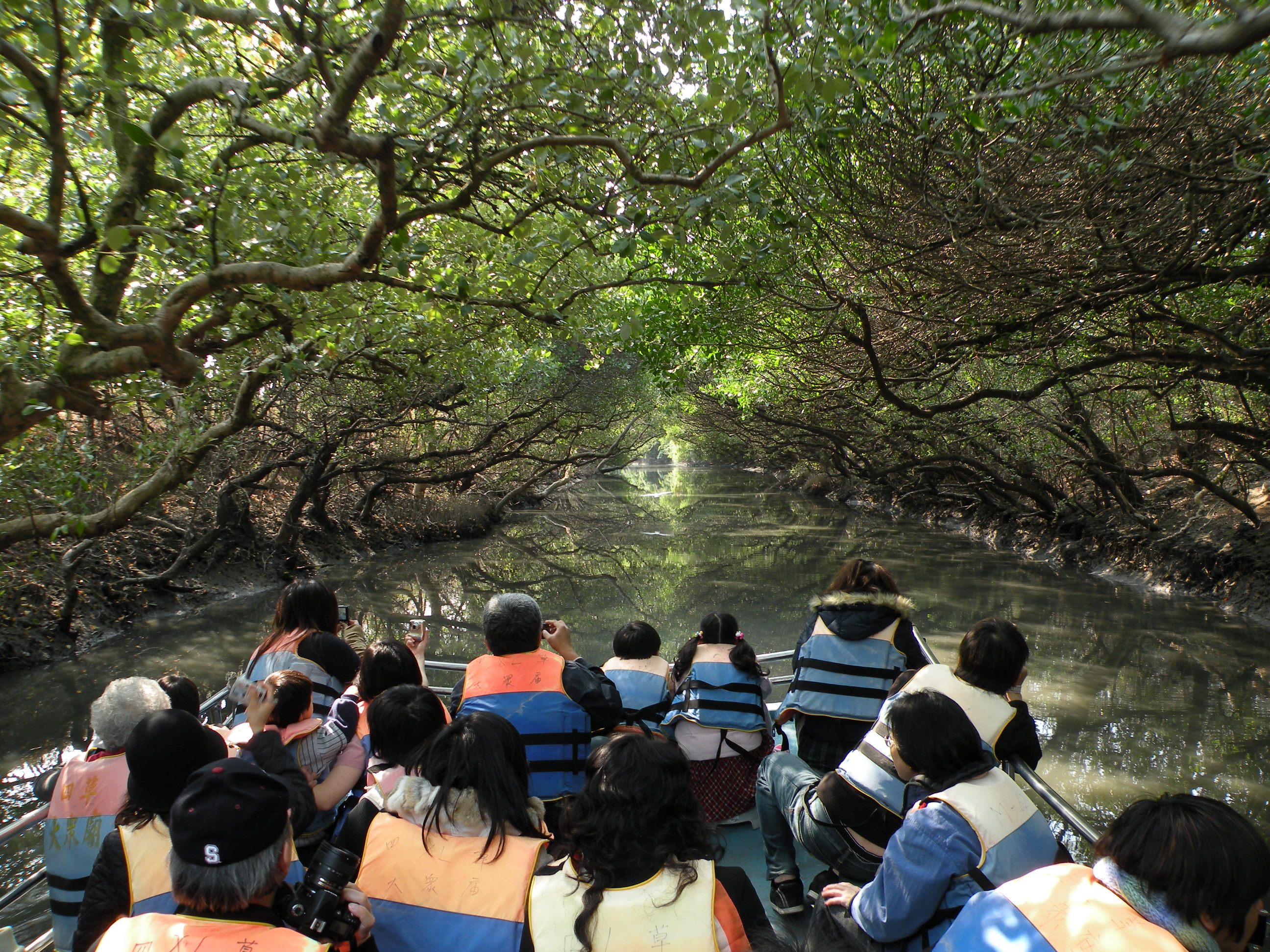 The green tunnel of mangrove in Sihchao(四草), Tainan, Taiwan; in the area of planningTaijiang National Park.